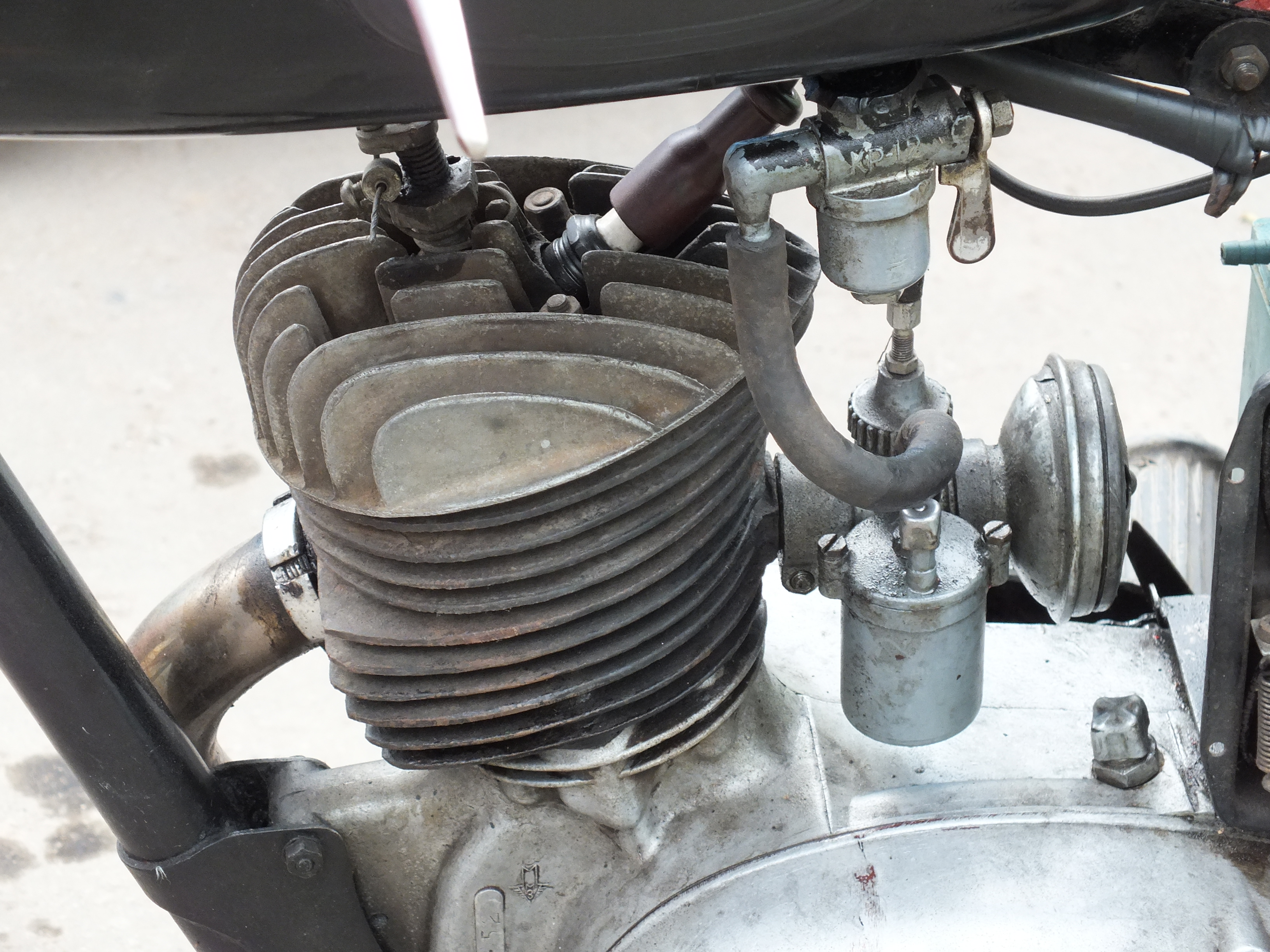 Motorcycles of Russia